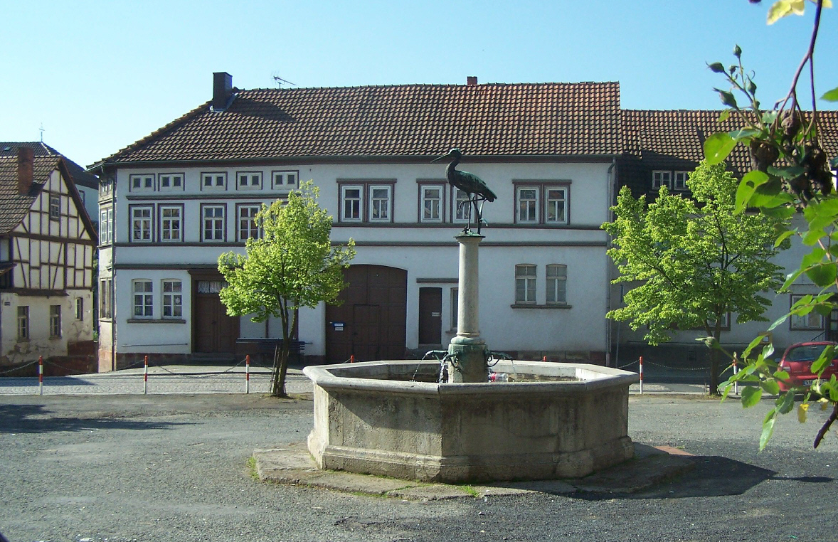 The fountain in Gerstungen at market place.